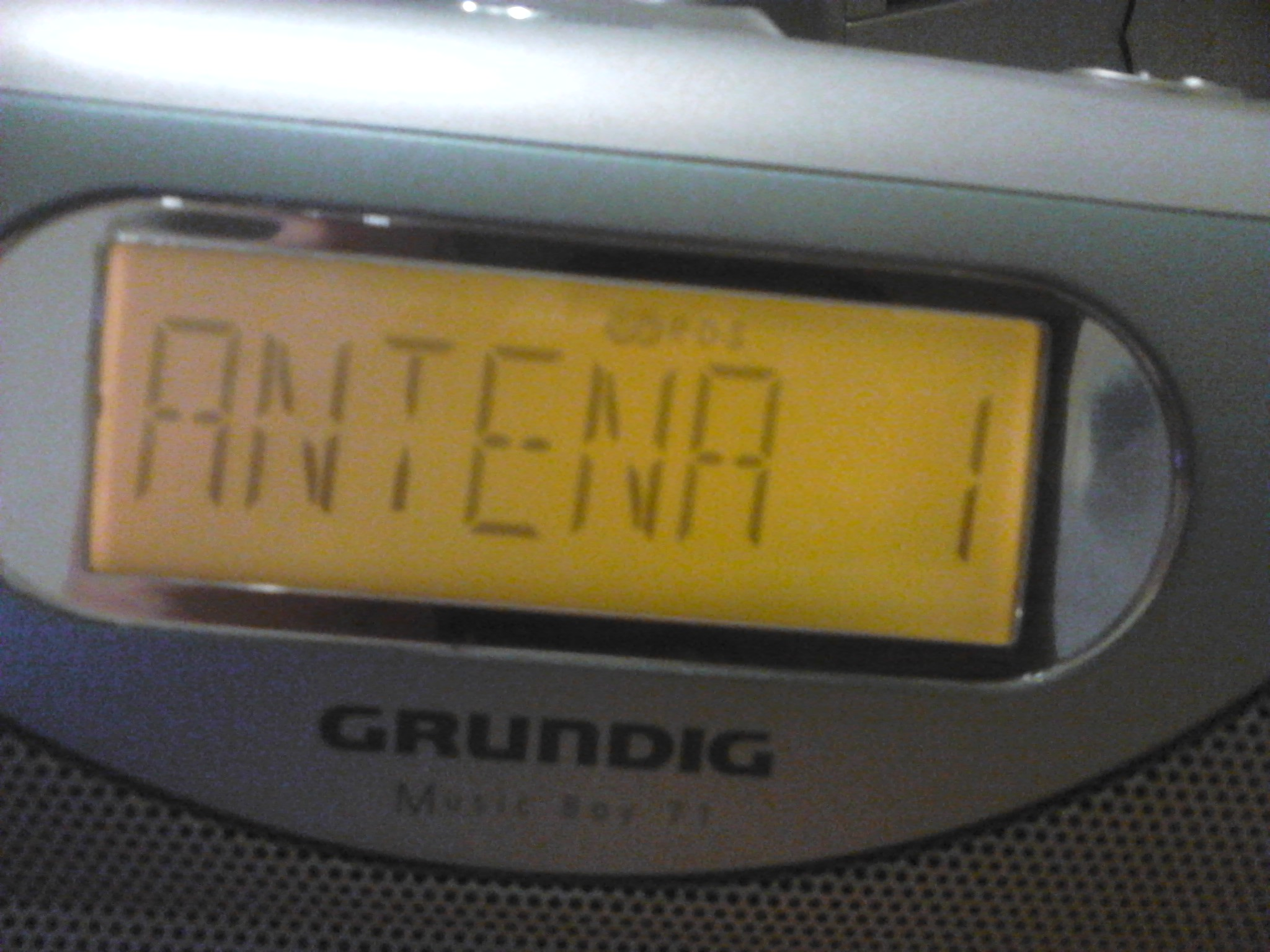 Antena 1 (Portugal) radio station tuned on FM 103.8 MHz with Radio Data System feature, using a Grundig portable radio.